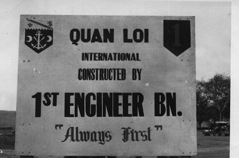 Sign erected in 1967 by 1st Engineer Battalion, at Quan Loi Fire Support Base, Republic of Viet Nam